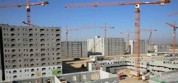 Construction in Bismayah on 25th September 2014.